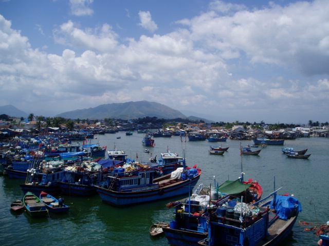 The fishing harbour in Nha Trang. Picture taken March 2004.